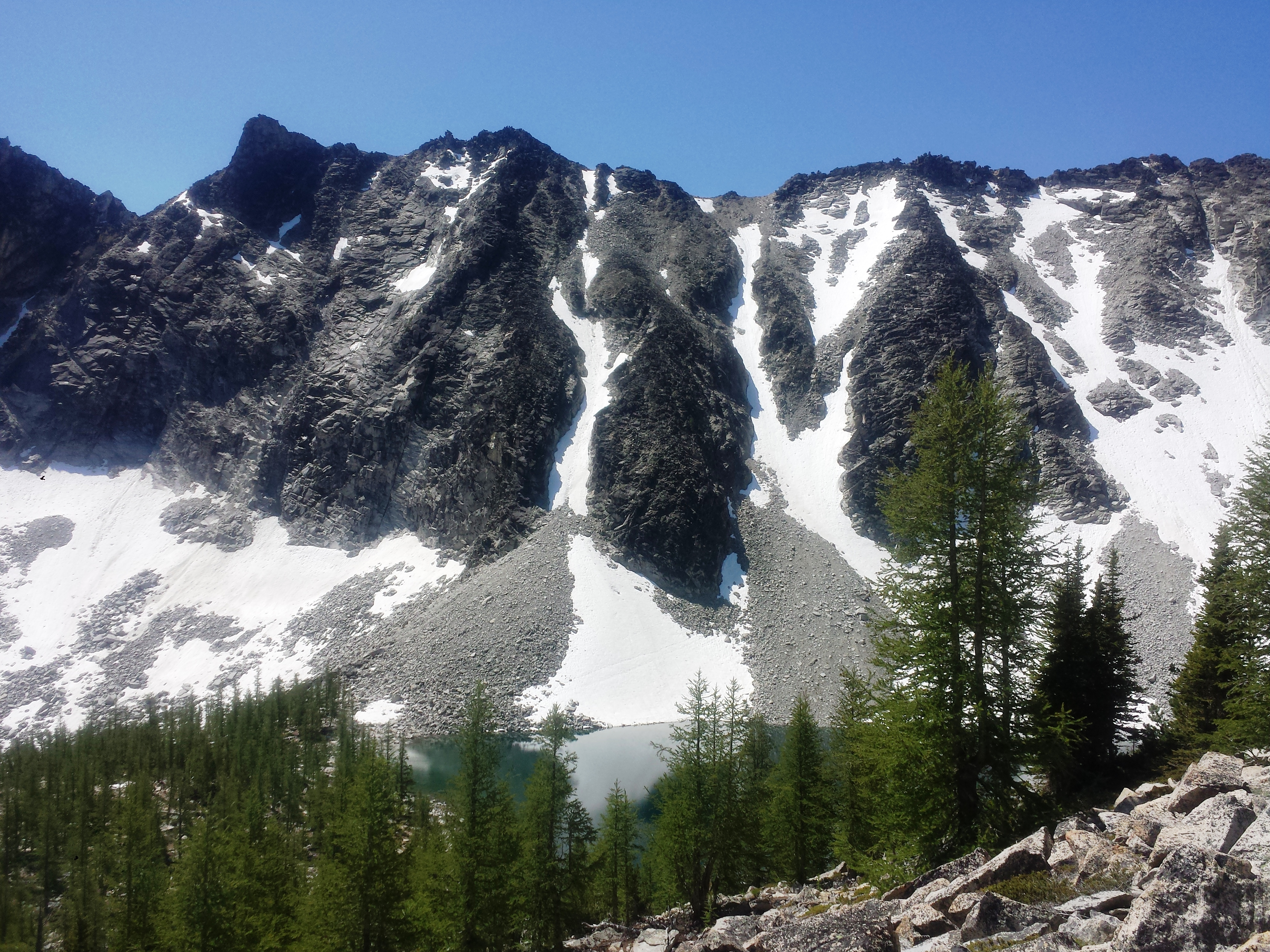 We are scrambling up a boulder field above Libby Lake IMG_20150620_112308